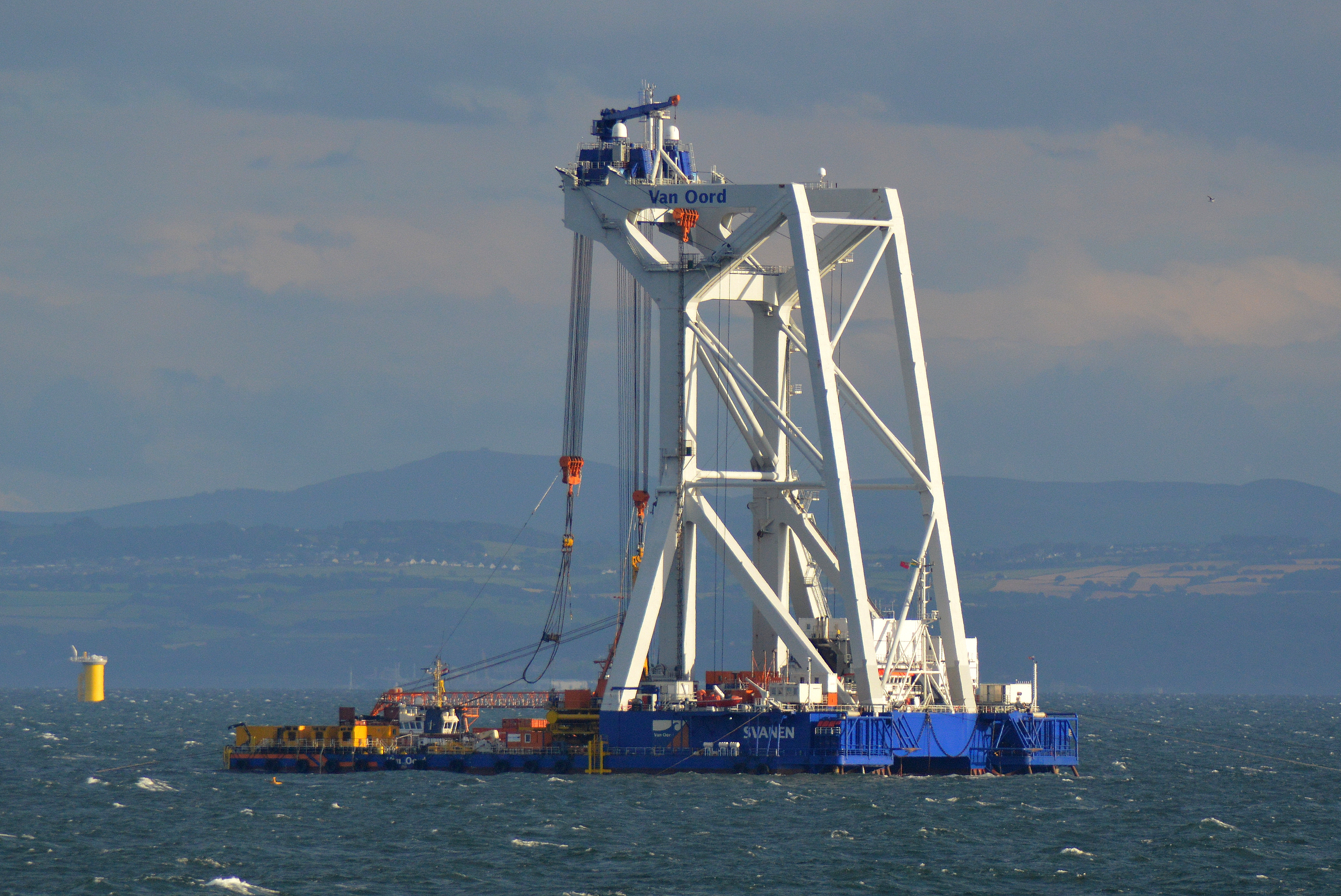 Svanen, lifting ship, involved with construction of Burbo Banks Offshore Windfarm Extension off the Wirral